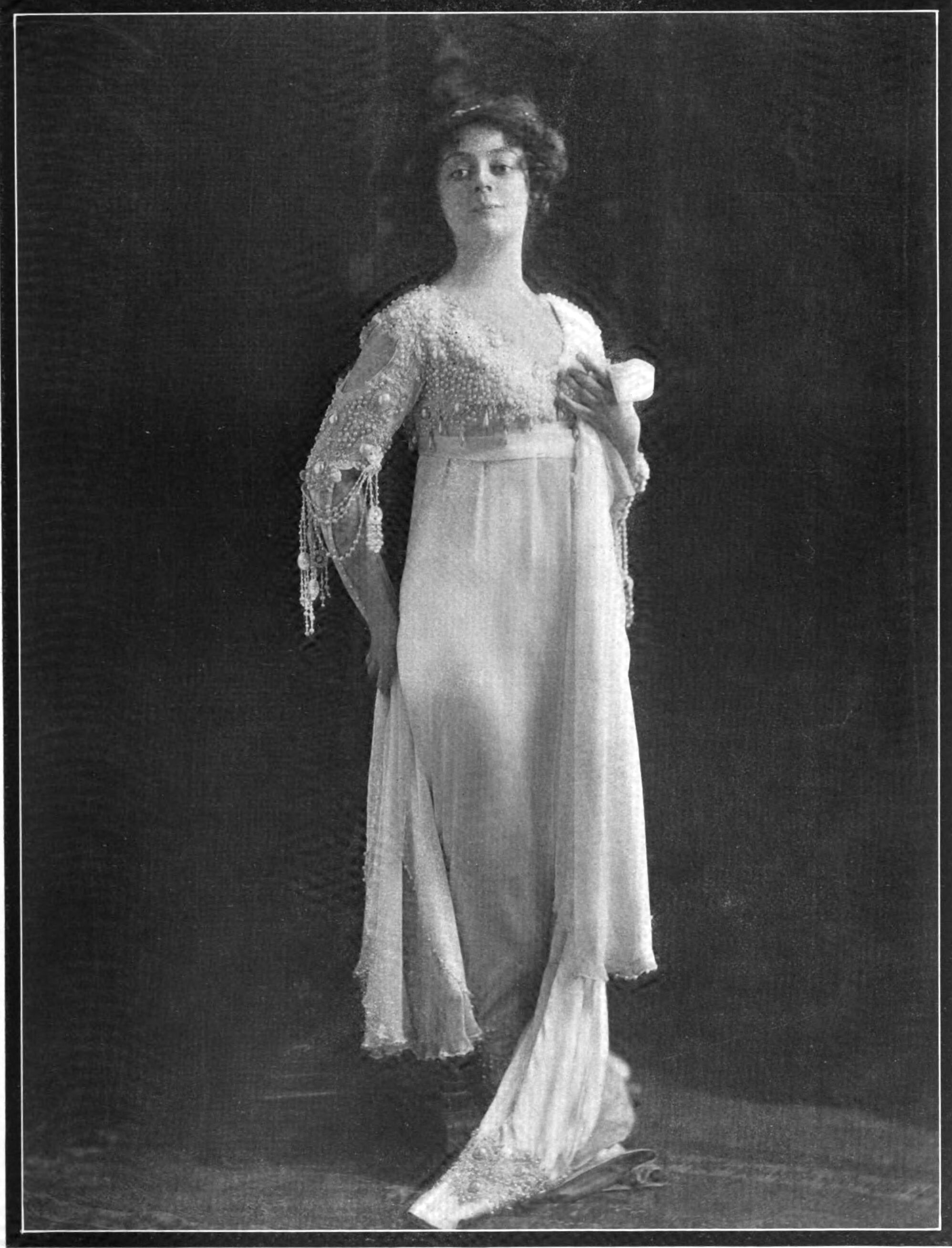 Adrienne was an actress and singer at the turn of the 20th century who appeared in musical theatre on Broadway and in London.